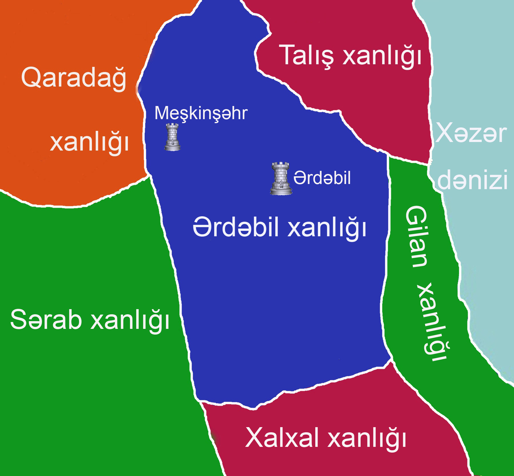 Ardabil Khanate. Territories of Northern and Southern Khanates (and Sultanates) of Azerbaijan in 18th-19th centuries Based on the original sources: 1."Frontier nomads of Iran: a political and social history of the Shahsevan" Author: Richard Tapper Cambridge University Press, 1997 ISBN 0 521 58336 5 hardback 2."Russian Azerbaijan, 1905-1920: The shaping of national identity in a muslim community" Author: Tadeusz Swietochowski Cambridge University Press, 1985 ISBN 0 521 26310 7 hardback ISBN 0 521 52245 5 paperback 3."Russia and Iran, 1780-1828" Author: Muriel Atkin University of Minnesota Press, 1980 ISBN 0 8166 0924 1